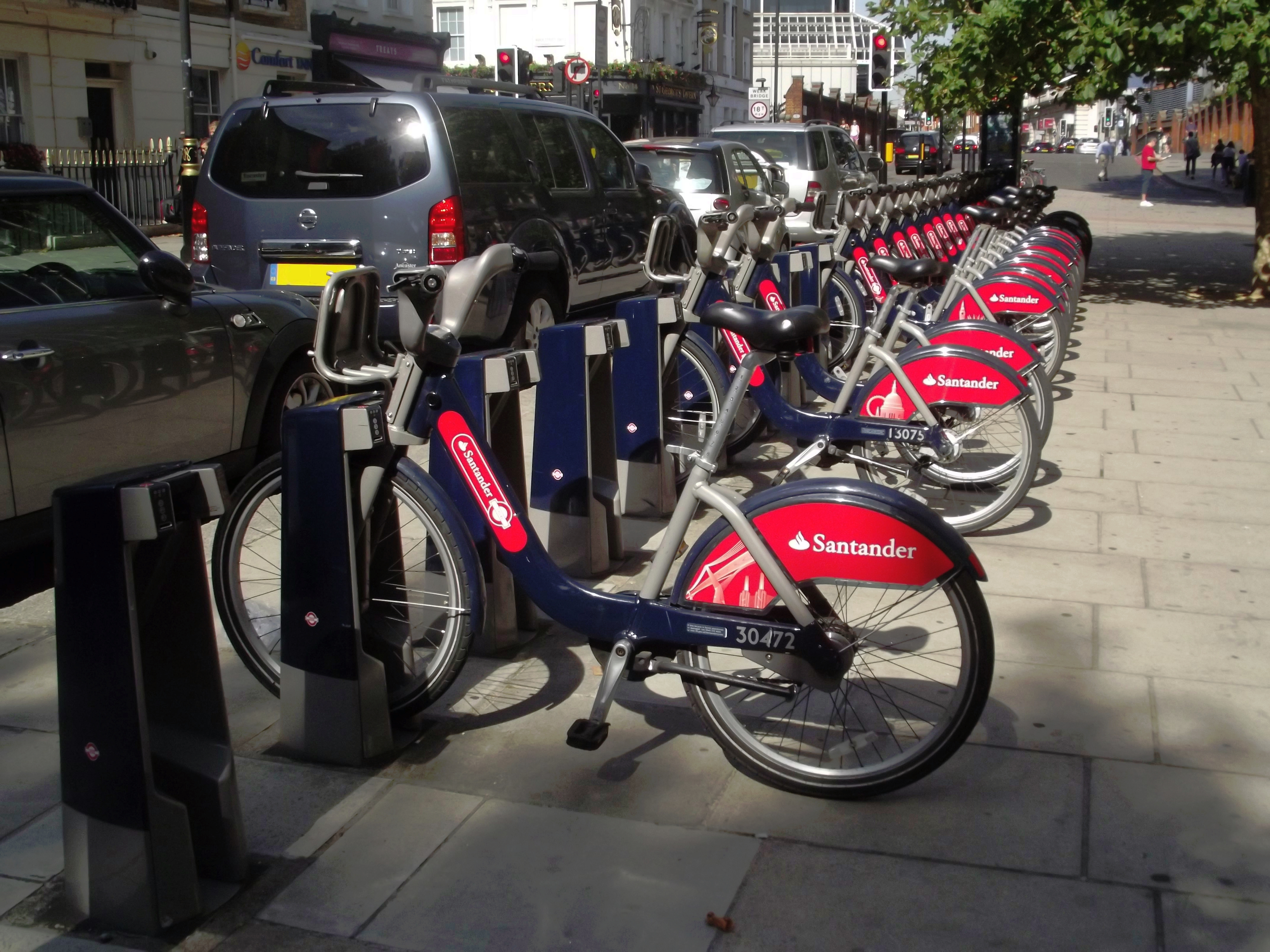 In Victoria, London. The area close to London Victoria Station. Seen on Belgrave Road. Boris Bikes seen on Belgrave Road. They are actually called Santander Cycles The scheme started in 2010. Was sponsored by Barclays Bank from 2010 to March 2015, when they were known then as Barclays Cycle Hire. Santander took over the sponsorship from April 2015.